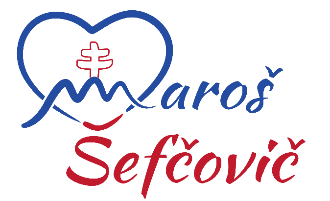 Campaign logo of Maroš Šefčovič for the Slovak presidential elections, 2019